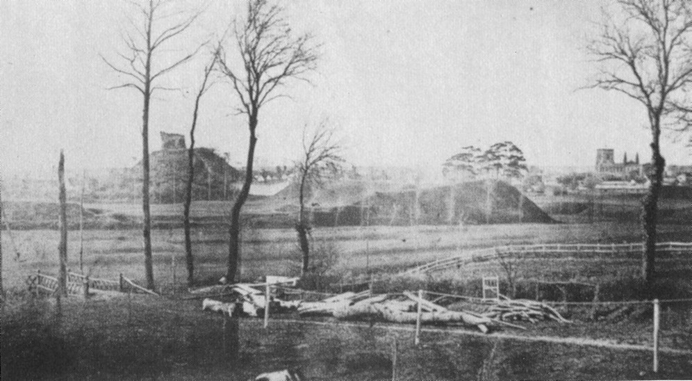 1860 photograph of Clare Castle, cleaned up by hchc2009